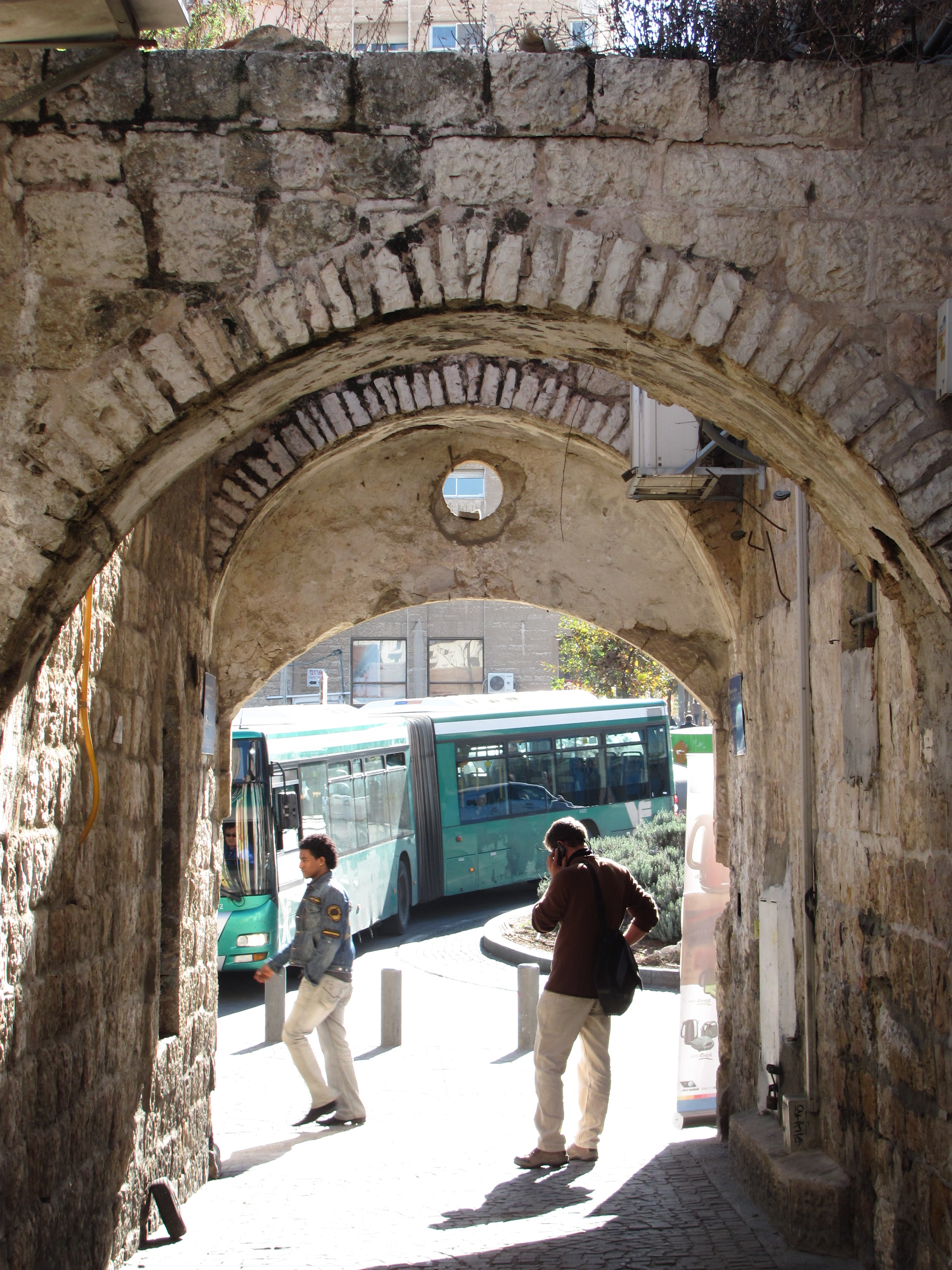 Historic gateway in the Even Yisrael neighborhood of Jerusalem, Israel, opening onto Agrippas St.